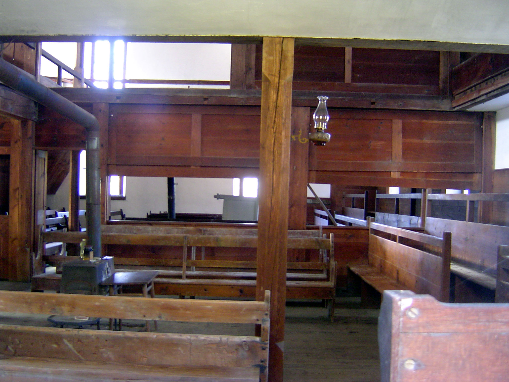 Interior view of the Friends Nine Partners Meeting House, Millbrook, NY. Taken November 2, 2009